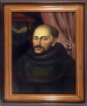 A portrait of Archbishop Ignacio Santibáñez (? - 1598). Ignacio Santibáñez was archbishop of Manila from 1595 untill his death in 1598.